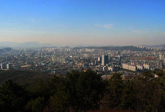 Overview of the Cheonan city landscape.